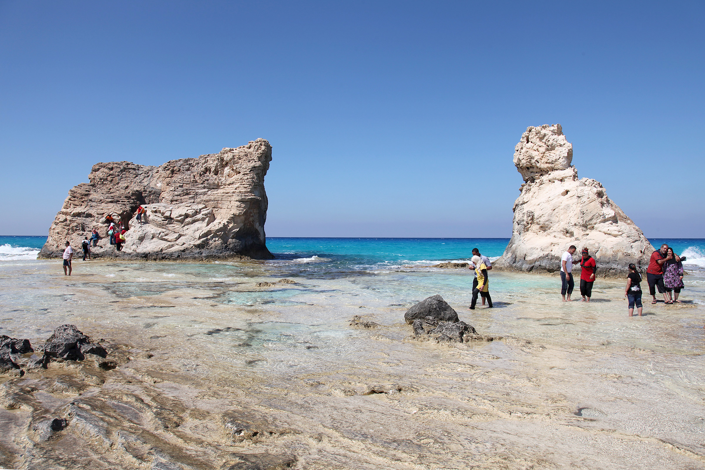 Cleotatra Bath, Marsa Matruh, Egypt